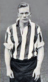 Cropped version of this image of Jimmy Dunne.